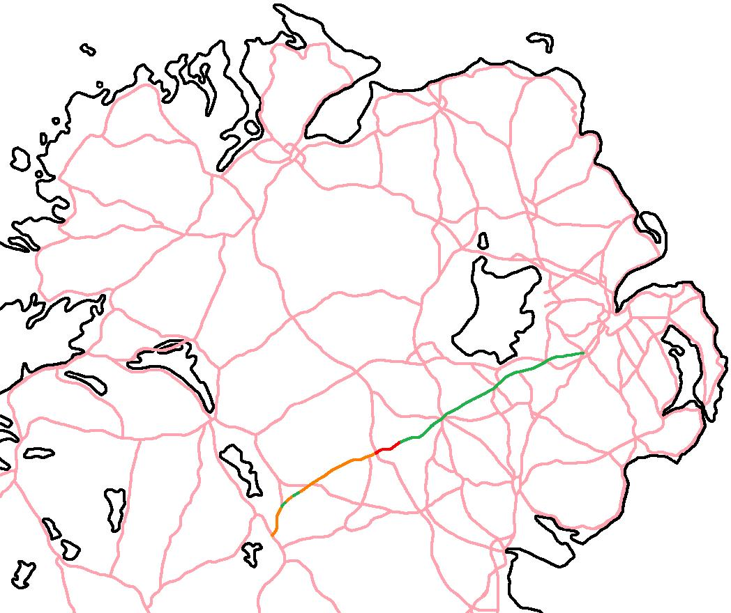 Licensing: ==